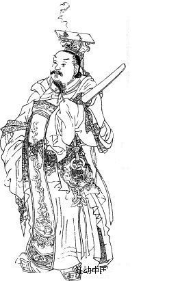 A portrait of Li Xiaogong